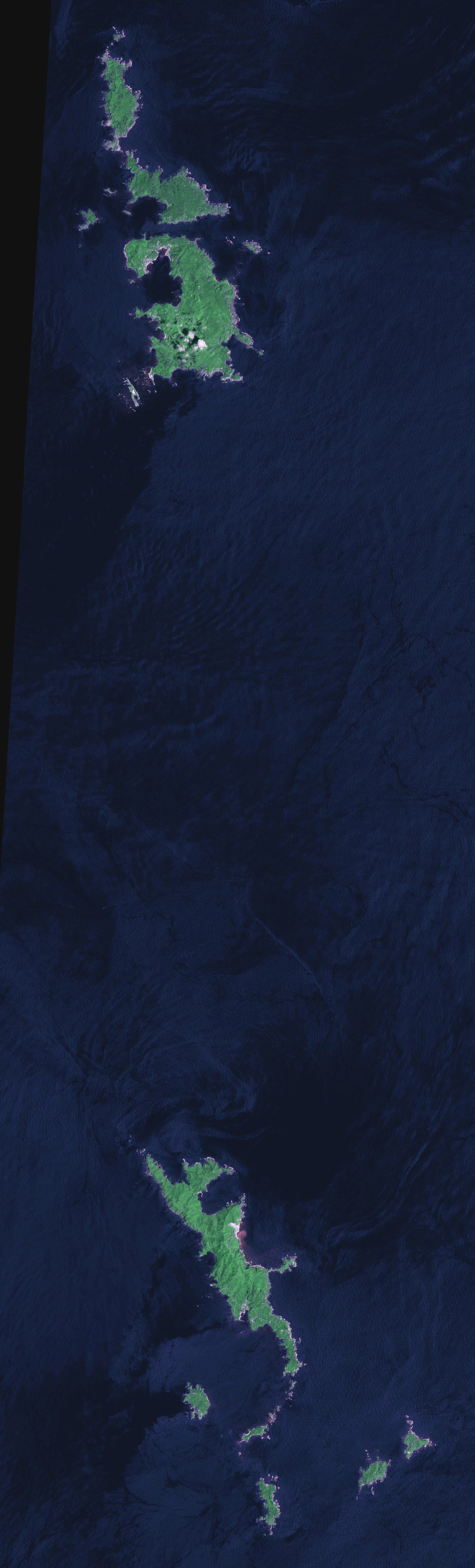 Satellite photo of the Ogasawara Islands: Chichijima (north) and Hahajima (south). It is color adjusted, because the source photo is thermal infrared.